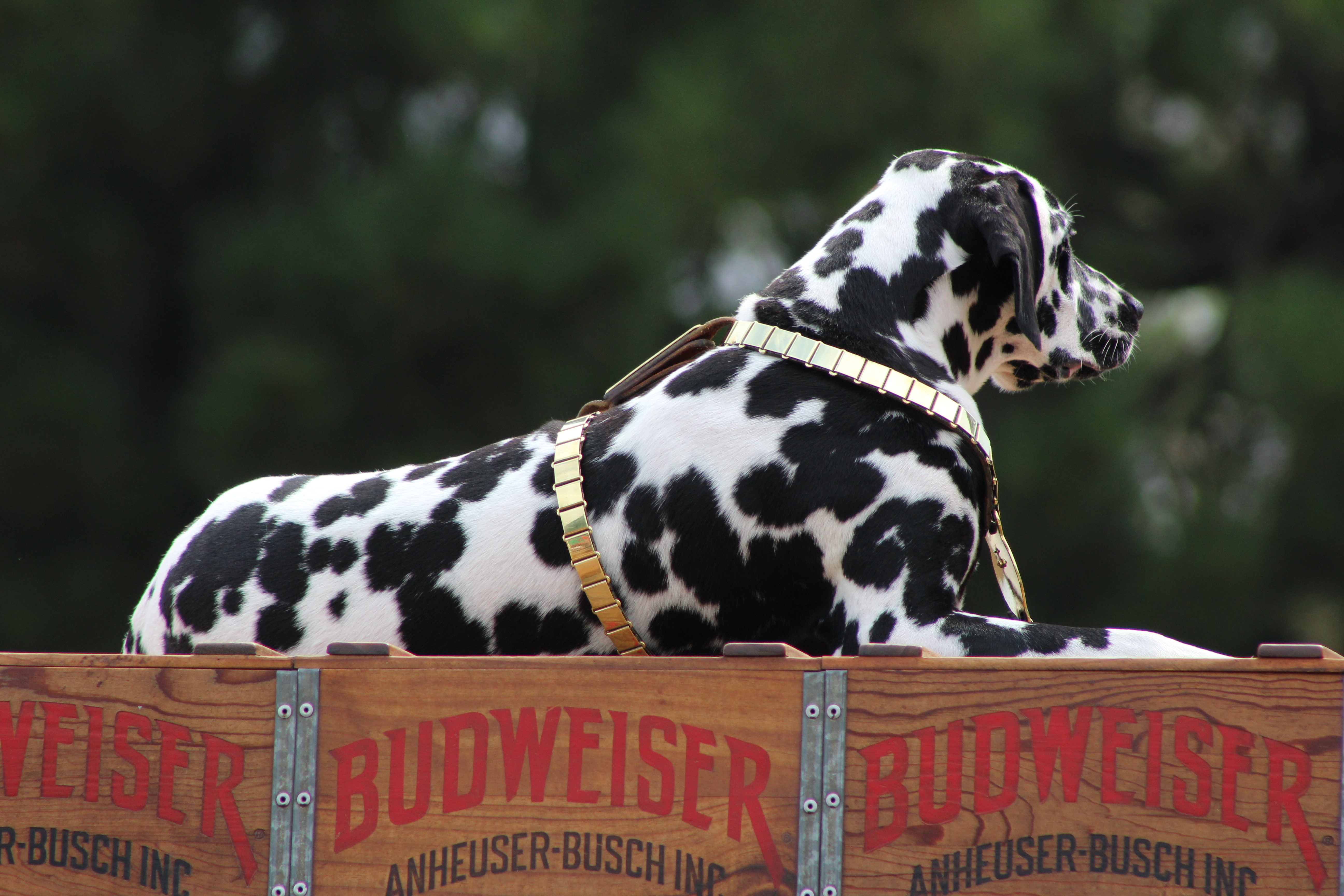 A Budweiser Clydesdale Dalmatian in Texarkana, Texas on August 29, 2015